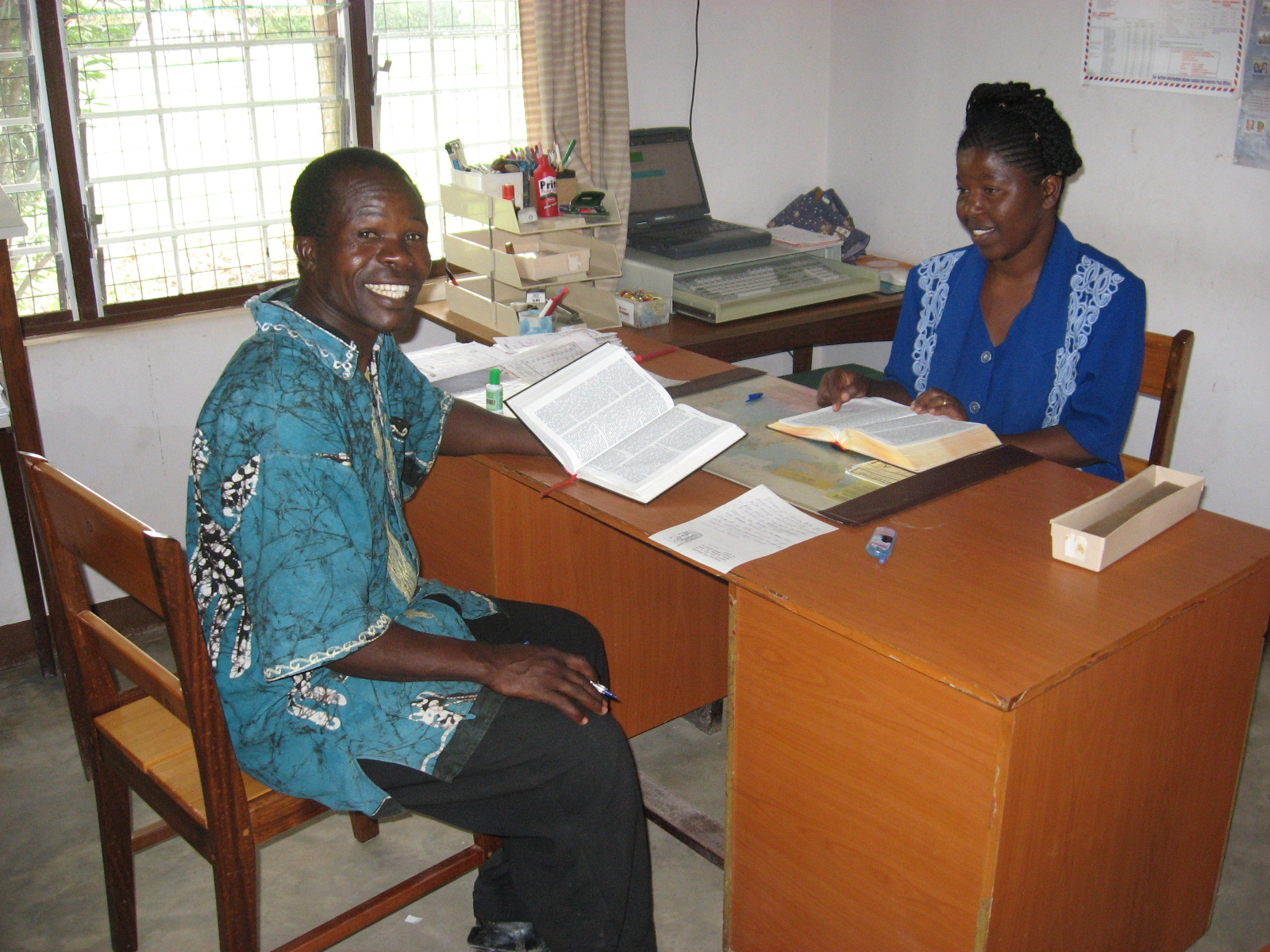 Emmaus Students. The school is situated in Dodoma, Tanzania